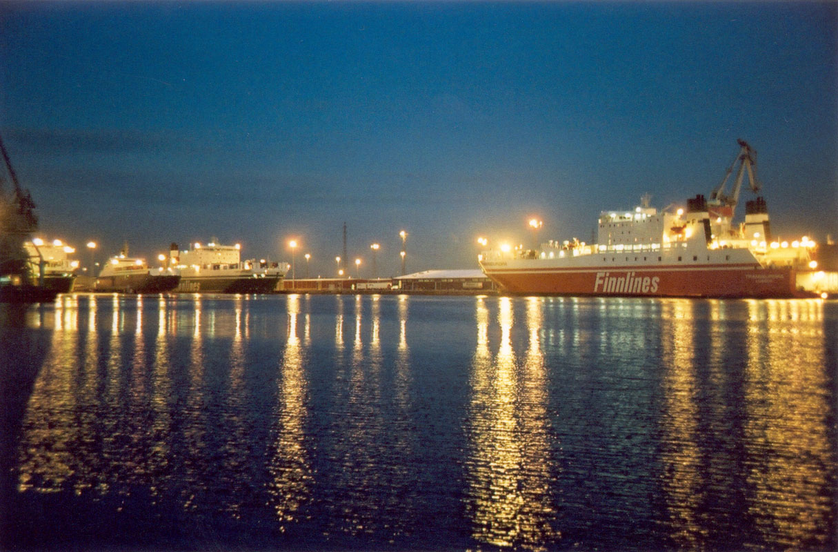 M/S Finnhansa, unidentified ship (probably M/S Finnforest or M/S Finnbirch), M/S Finnpartner and M/S Transeuropa in Helsinki during a dockworker's strike, November 2004.